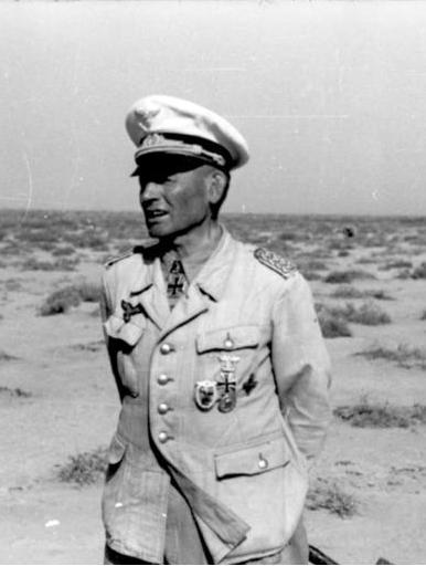 Title: Nordafrika, Bernhard-Hermann Ramcke Extra information: Nordafrika.- Generalmajor Bernhard-Hermann Ramcke in der Wüste stehend, Spaten in der Hand haltend, (vor dem 13.11.1942); PK XI. Fliegerkorps People in the image: Ramcke, Bernhard-Hermann: General, Ritterkreuz (RK), Luftwaffe, 1961 Kriegsverbrecherprozeß in Frankreich, Bundesrepublik Deutschland (GND 123603358) Factual corrections and alternative descriptions are encouraged separately from the original description. Additionally errors can be reported at this page to inform the Bundesarchiv. Original historic description